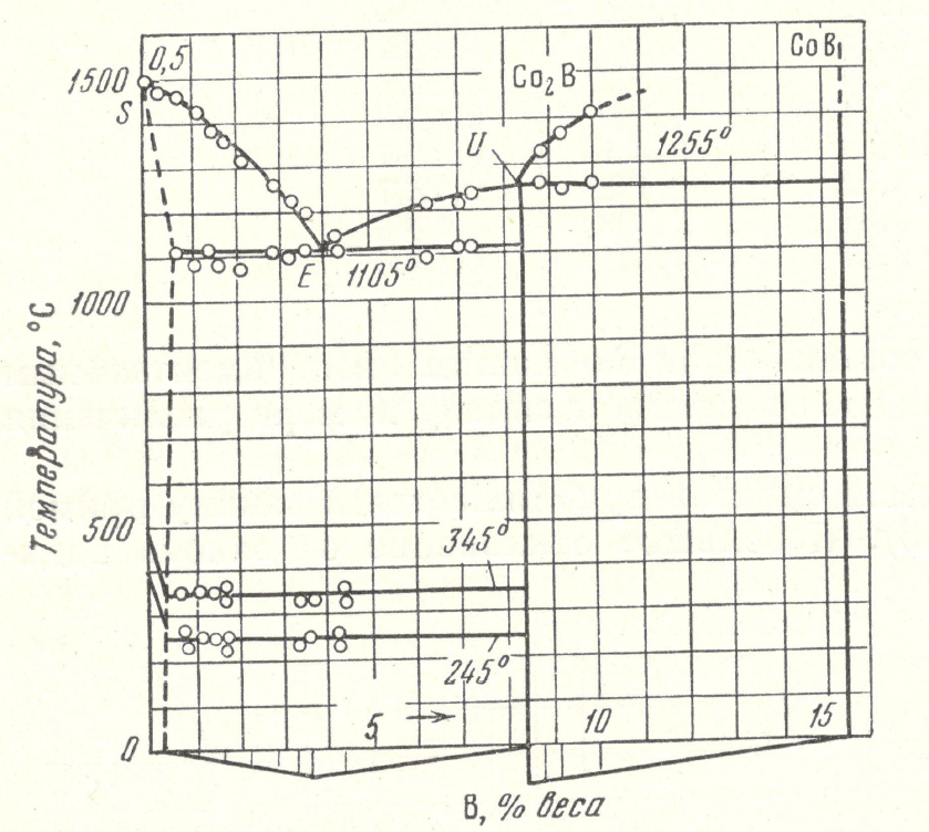 A phase diagram of the cobalt-boron system used in metallurgy.